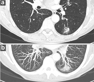 Original caption: Cardiac CT in 64-year-old woman with chronic cough and cardiac complaints showed a nodule in the left lower lobe. Dedicated chest CT confirmed persistence of the nodule and solitary nature. Axial CT-images in lung window setting a show a complex nodule with spiculation, pleural tags, irregular air bronchogram with bronchial interruption sign and ground glass component. Maximum intensity projection (MIP) images b better demonstrate convergence of the vessels towards the lung nodule. Malignancy was confirmed after lobectomy with histopathologic examination showing a 2.1 cm invasive adenocarcinoma.